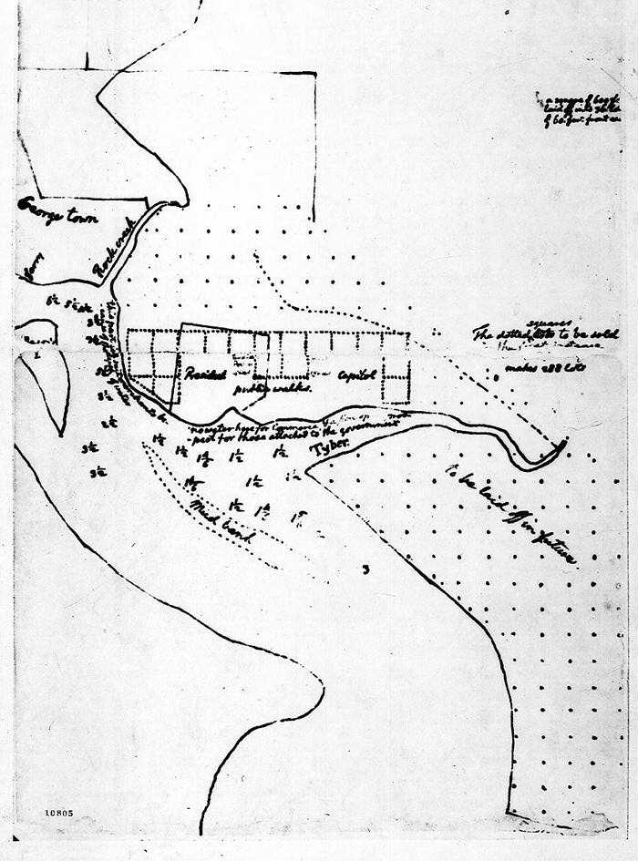 Jefferson's Pragmatic Design for the Federal City Thomas Jefferson [Proposed Plan of Federal City], March 1791 Ink on paper Thomas Jefferson Papers, Manuscript Division Library of Congress